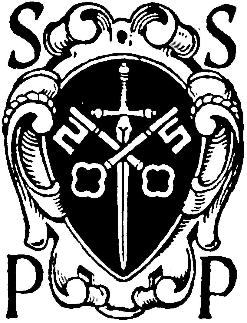 Inside pamphlet "Divorce versus Democracy"